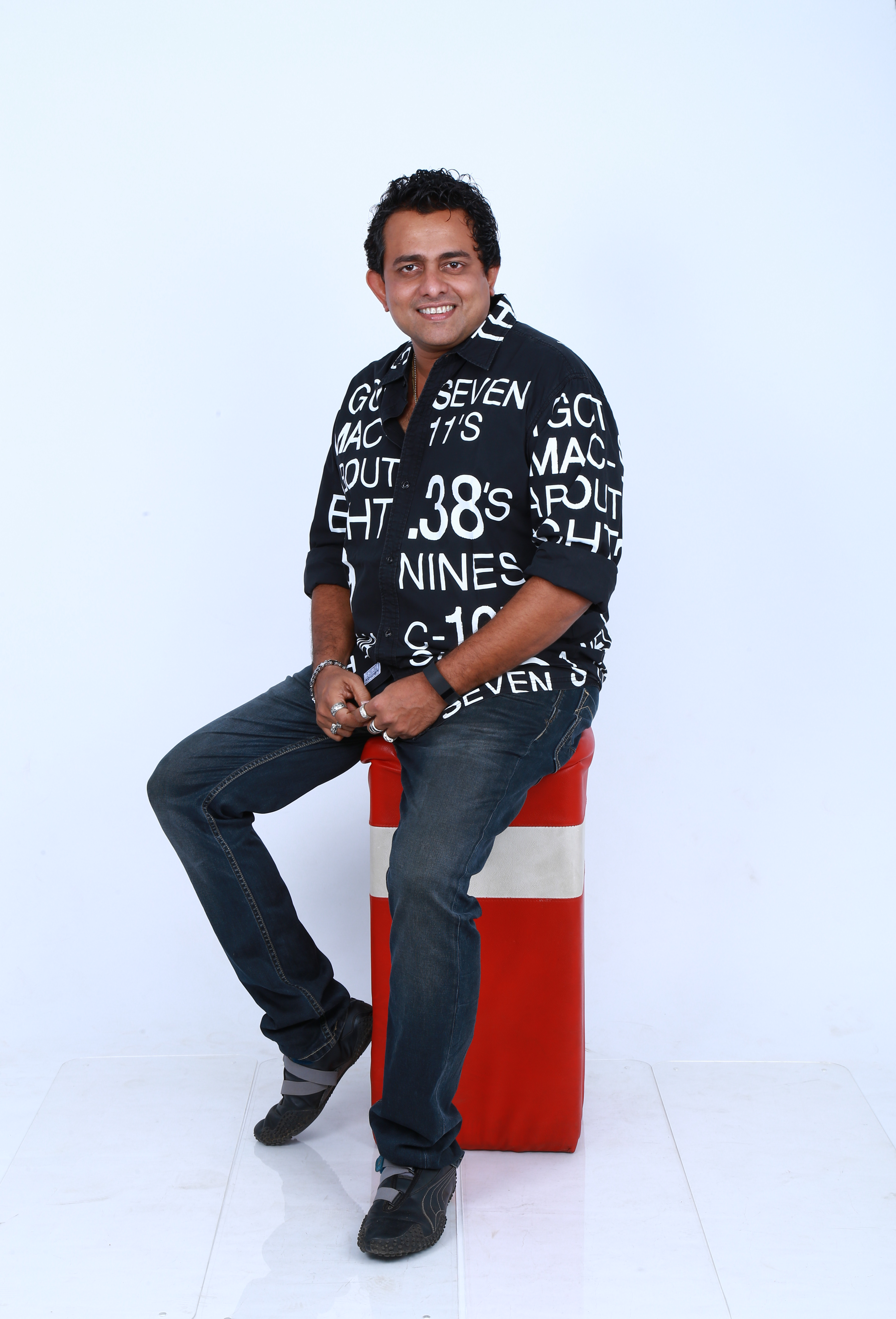 Franco in Casual setting